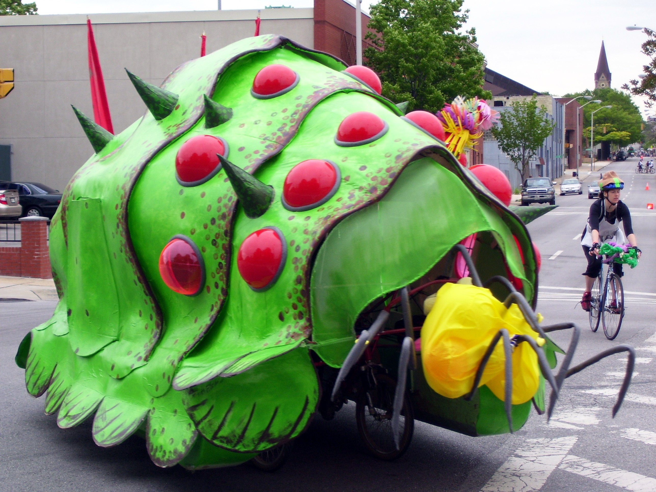 The Attack of the Sculpturians, was human-powered vehicle, participating in the American Visionary Art Museum's Kinetic Sculpture Race, Baltimore, Maryland. Once again, this vehicle passed us as we walked to the next point of interest for the race.